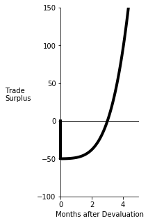 This is a J-curve drawn in Python.